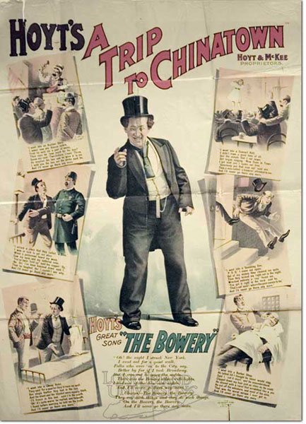 1890 poster advertising A Trip to Chinatown